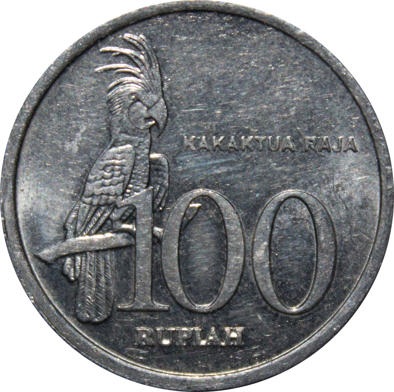 100 rupiah coin reverse